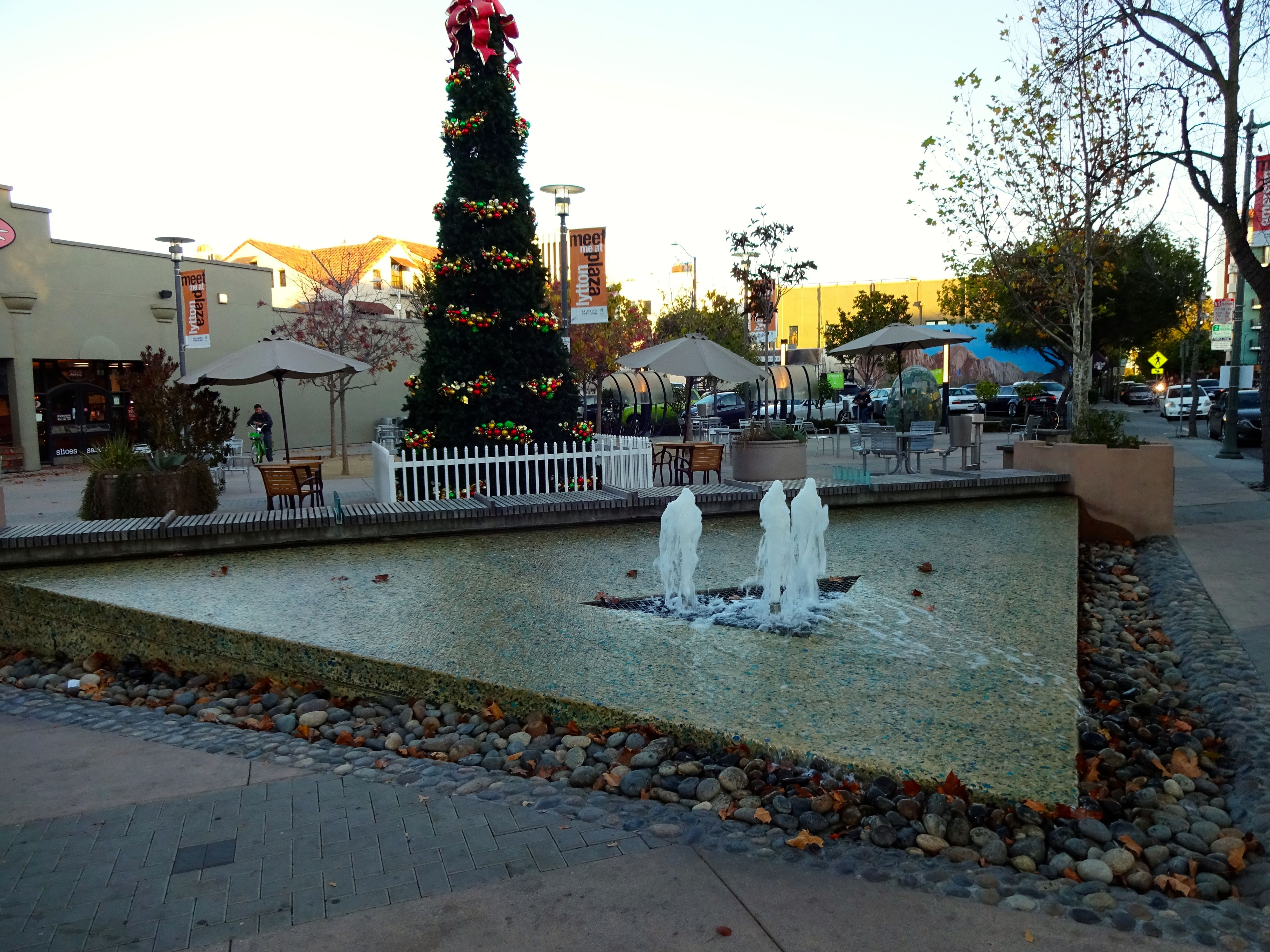 Litton Plaza in Palo Alto California